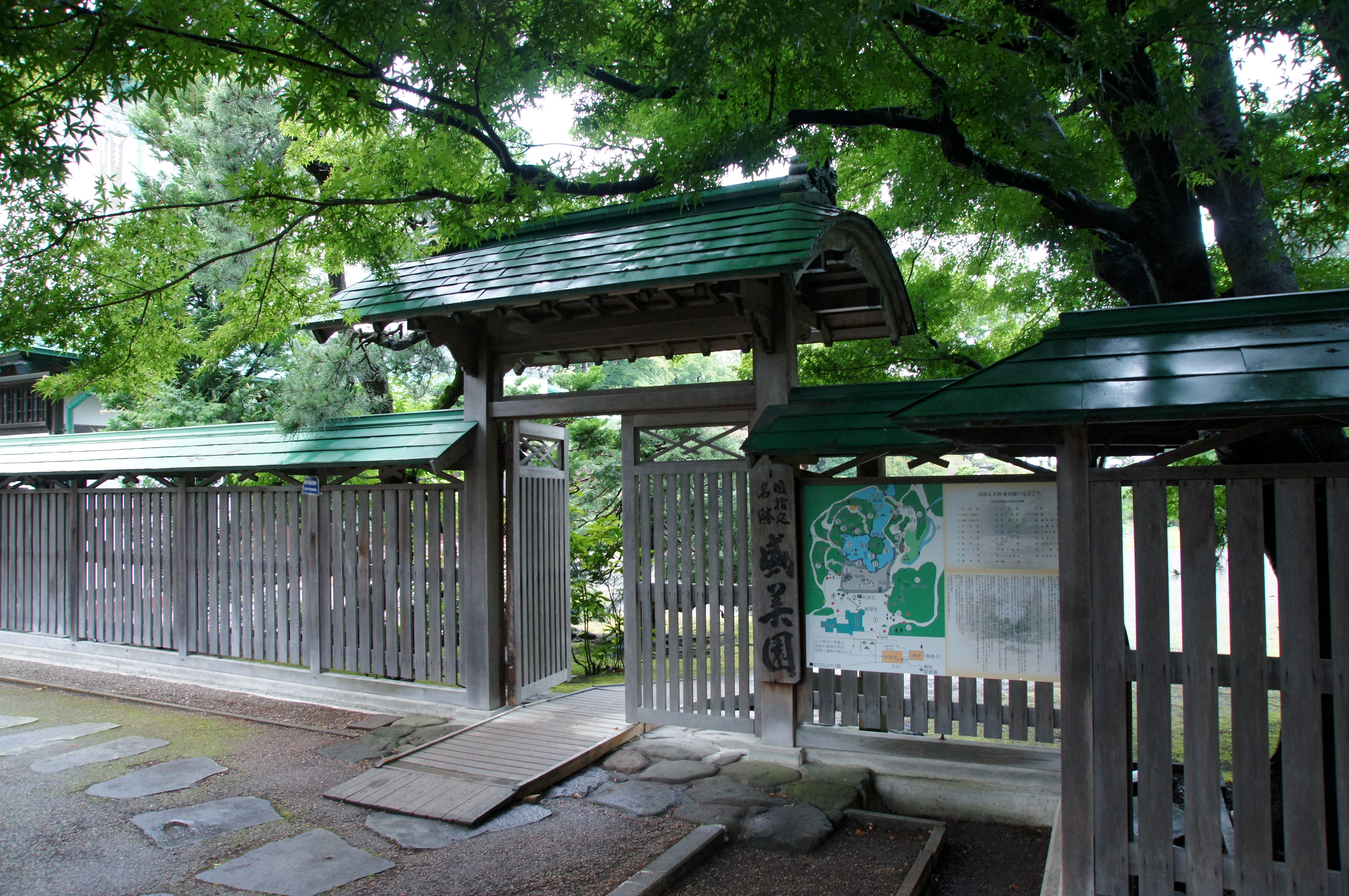 Seibi-en in Hirakawa, Aomori prefecture, Japan